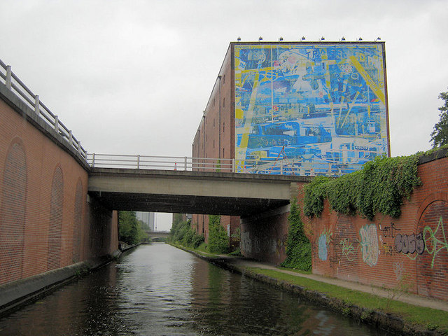 Trafford Road Bridge 95